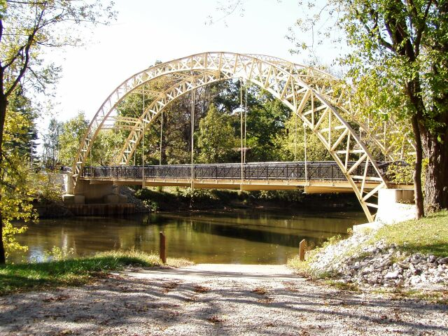 View of Dunns Bridge over the Kankakee River, Teft, Indiana